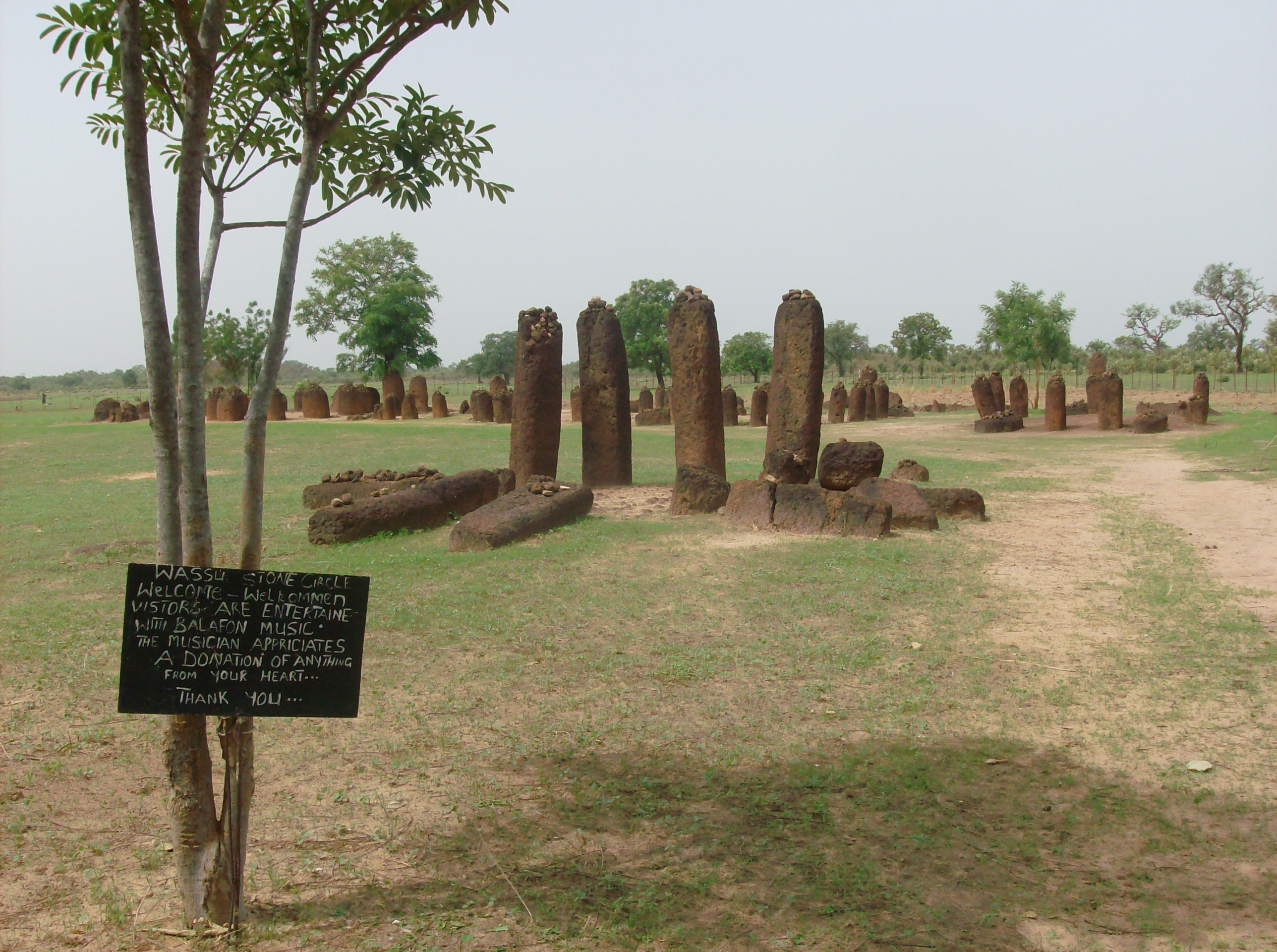 Wassu Stone Circle